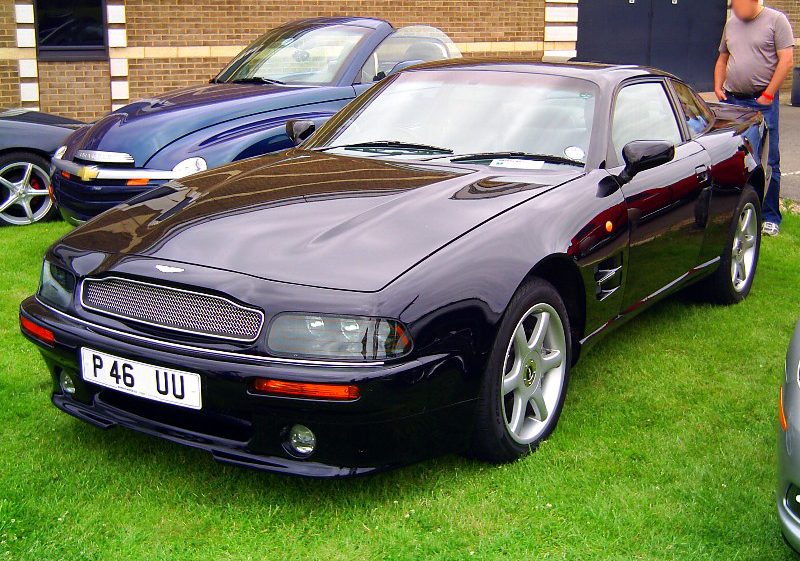 1997 Aston Martin V8 Coupé - albeit first registered in 2002